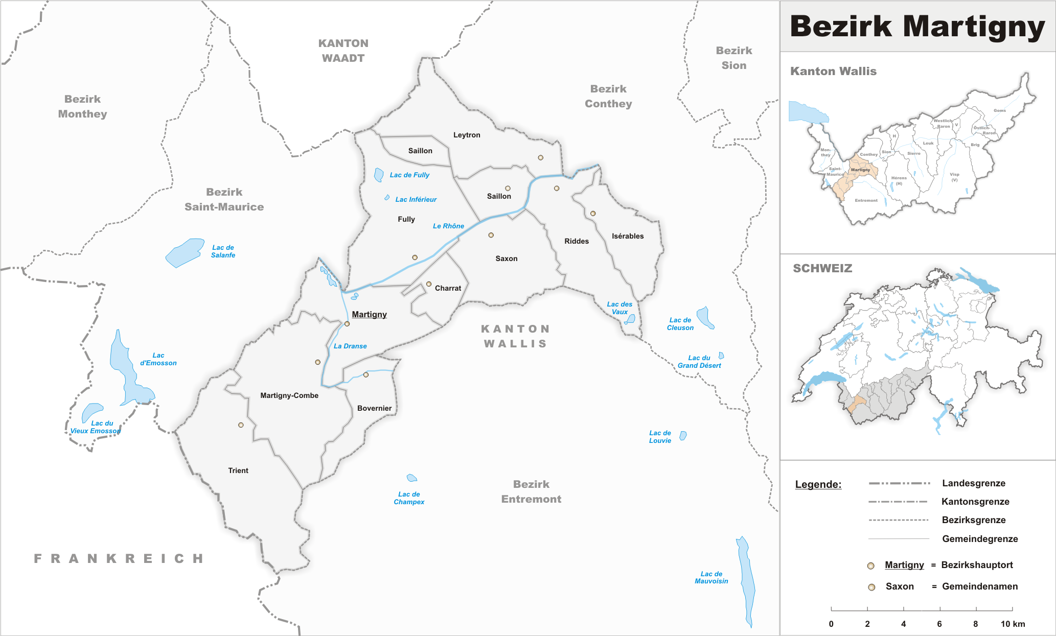 Municipalities in the district of Martigny